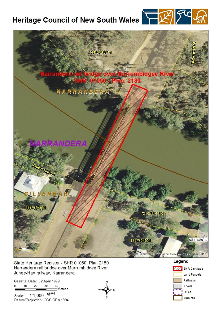 Murrumbidgee River railway bridge, Narrandera: SHR Plan 2180